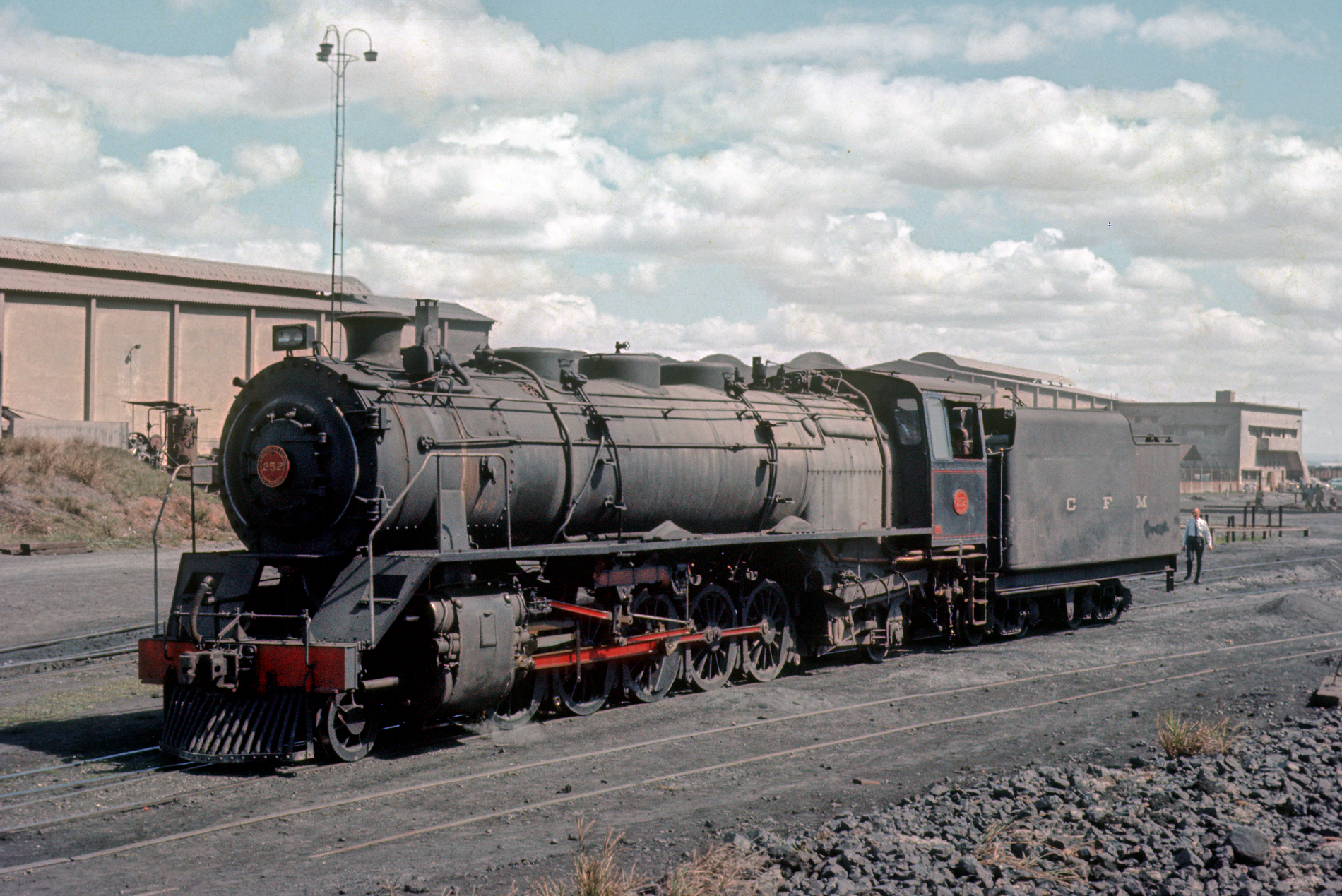 Mozambique CFM Class 250 2-10-2 no. 252, Lourenco Marques Locoshed